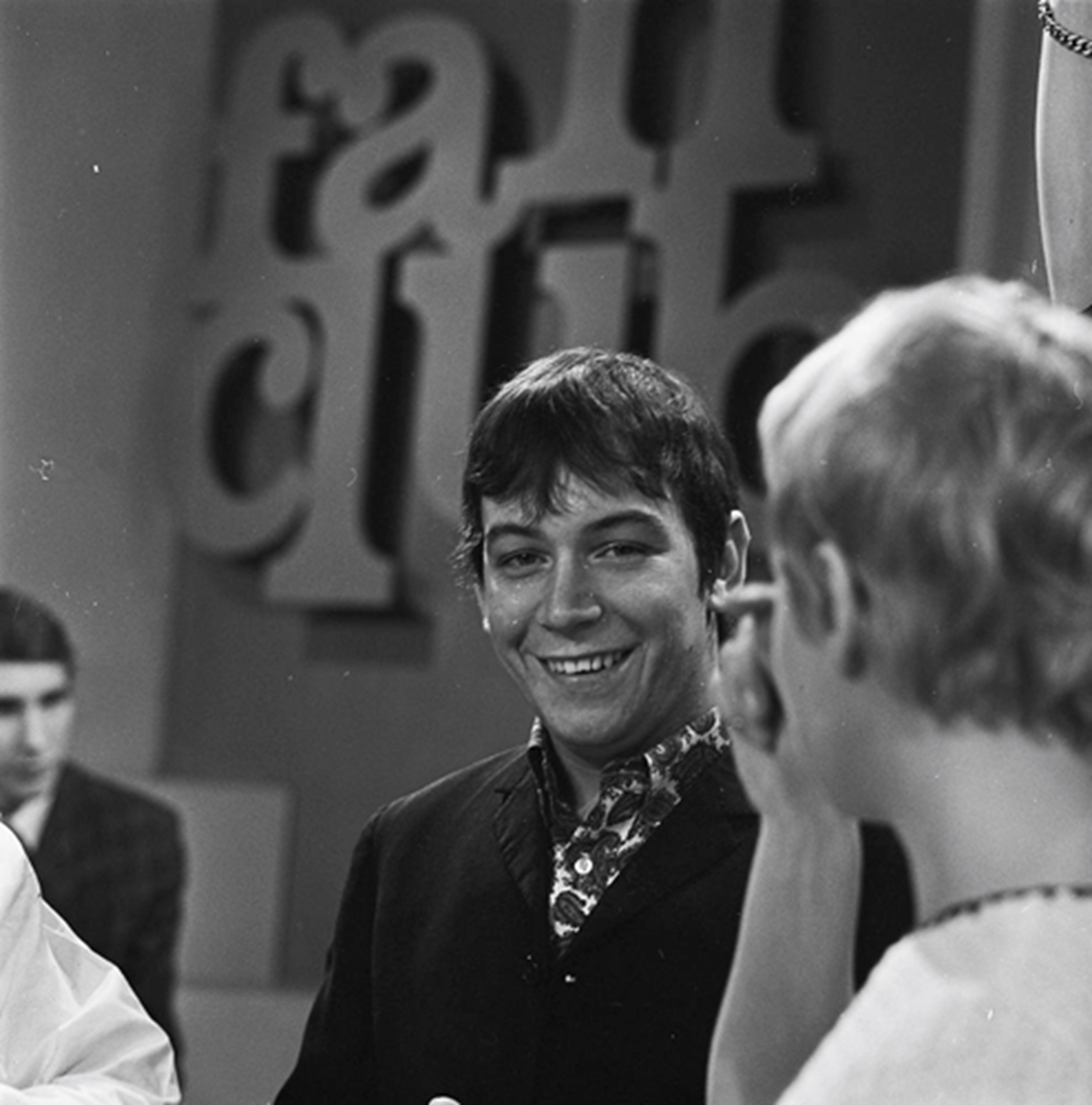 Eric Burdon interviewed by Judith Bosch after performing in the Dutch TV programme Fanclub. Recorded 7 January 1967, broadcast 13 January 1967